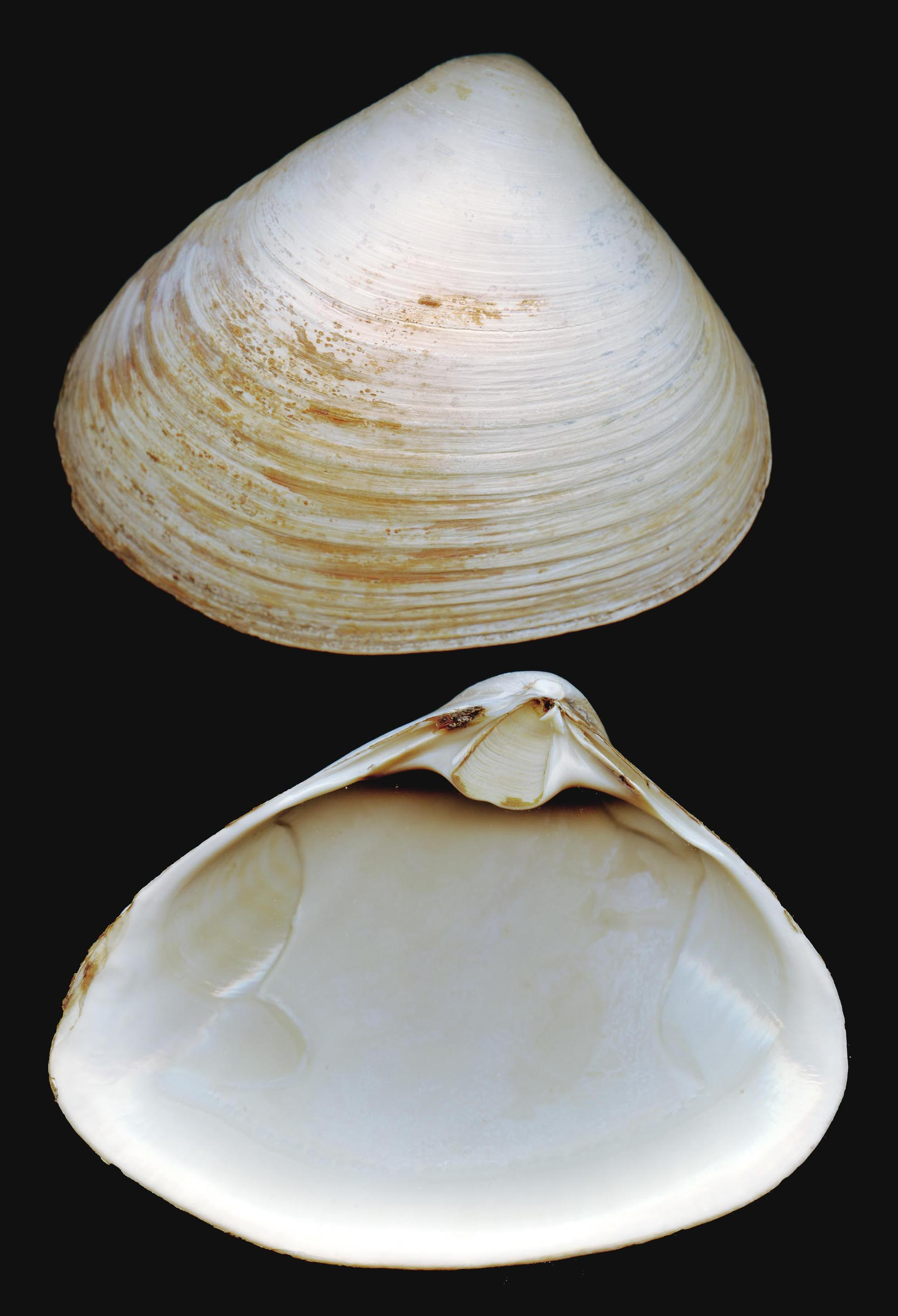 A 152 mm adult shell of Spisula solidissima from Long Beach, Long Island, New York State. Right valve at the top, left valve at the bottom.